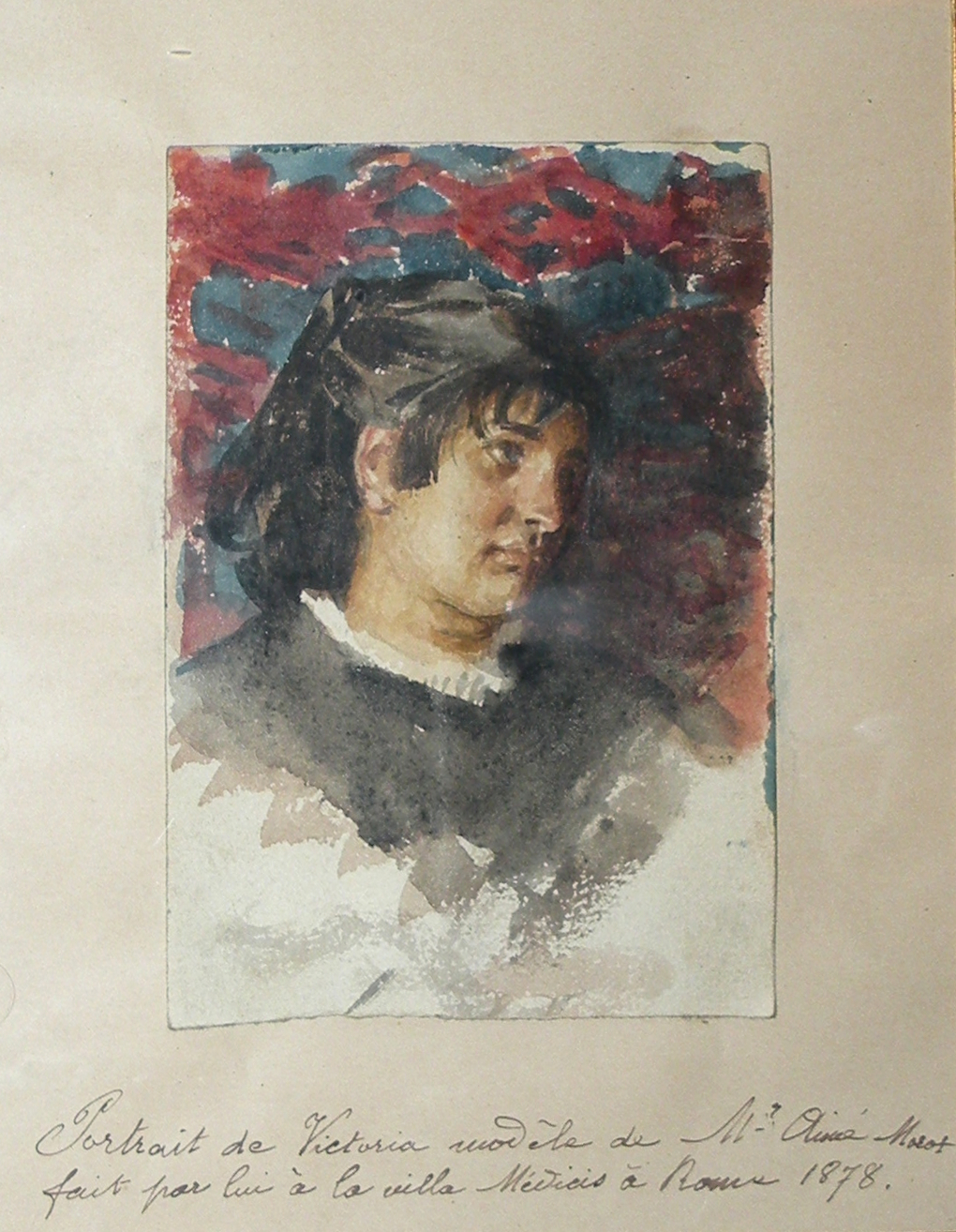 Aime Nicolas Morot, 1878. Watercolor on paper portrait made for his Italian model Victoria, painted during his stay at Villa Medicis, Rome, Italy. Portrait size 9x12 cm. No signature.